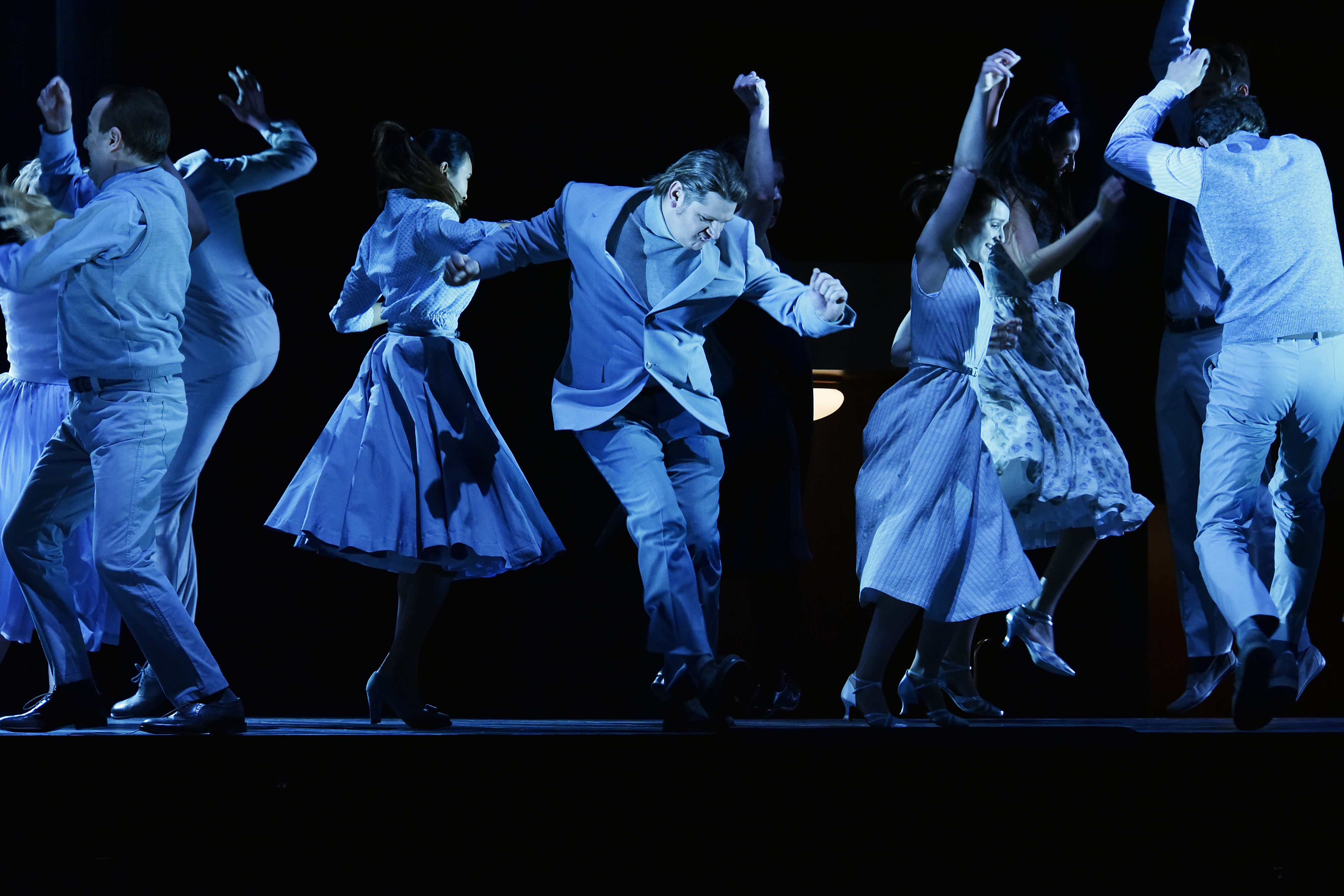 Elektra, Vienna State Opera 2015 (dance of Elektra at the end of the opera)